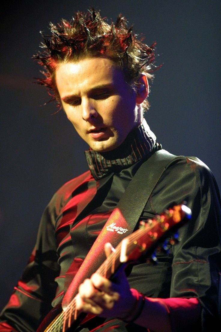 Matthew Bellamy (Q190576) performing with Muse (Q22151) at Zénith Sud (Q3576476).